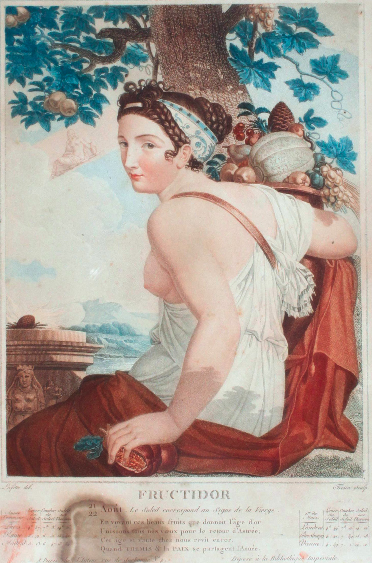 Allegory of Fructidor (republican French calendar month).